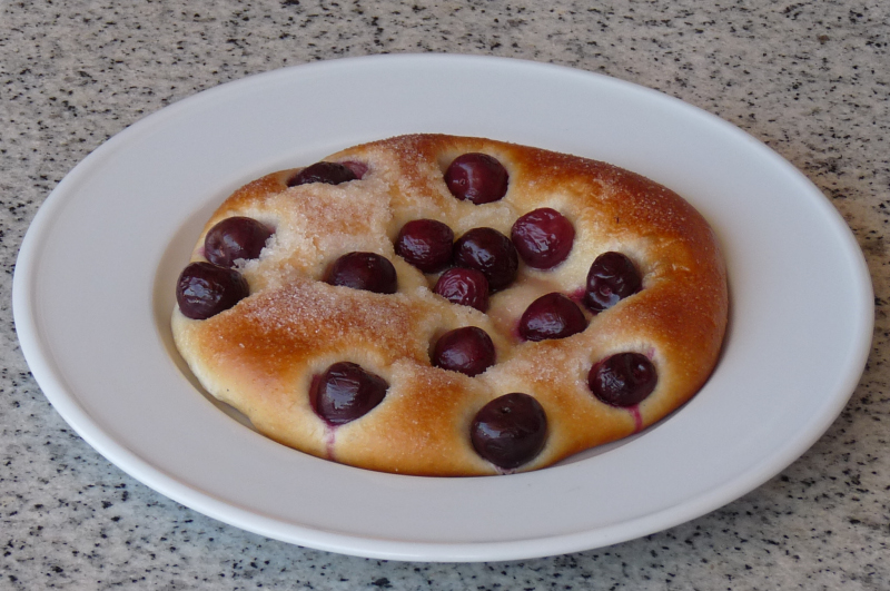 Cake with cherries (coca amb cireres) typical food of Reus eaten by Corpus